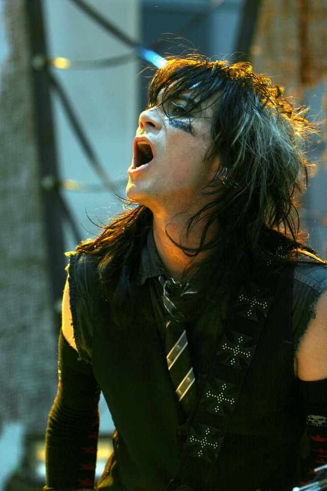 Keri Kelli, American guitarist